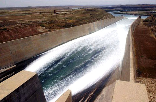 Original caption states, "Water rushing out one of the chute spillways at the Mosul Dam. The concrete-lined chute exits to a ski jump section for energy dissipation."